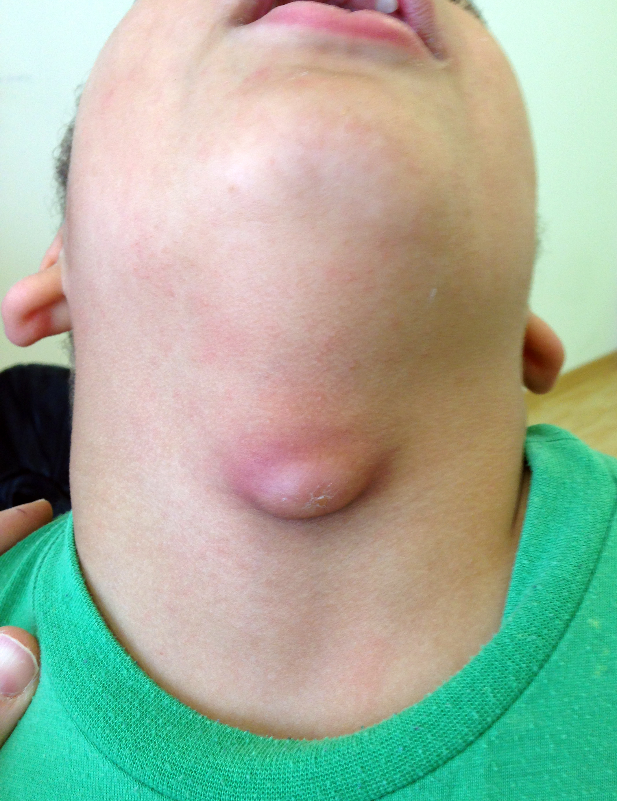 Inflamed thyroglossal cyst.